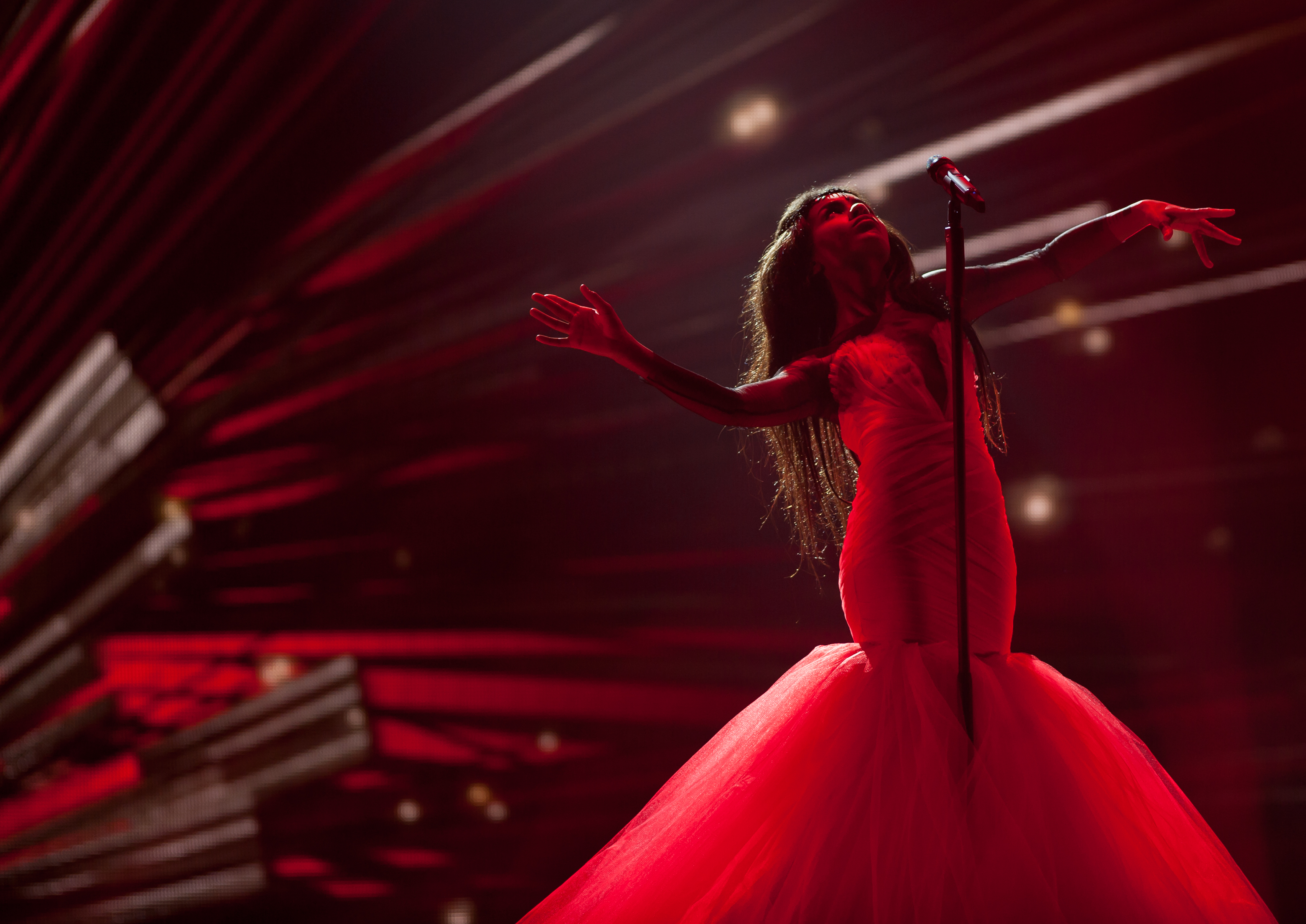 Eurovision Song Contest Vienna 2015: Aminata